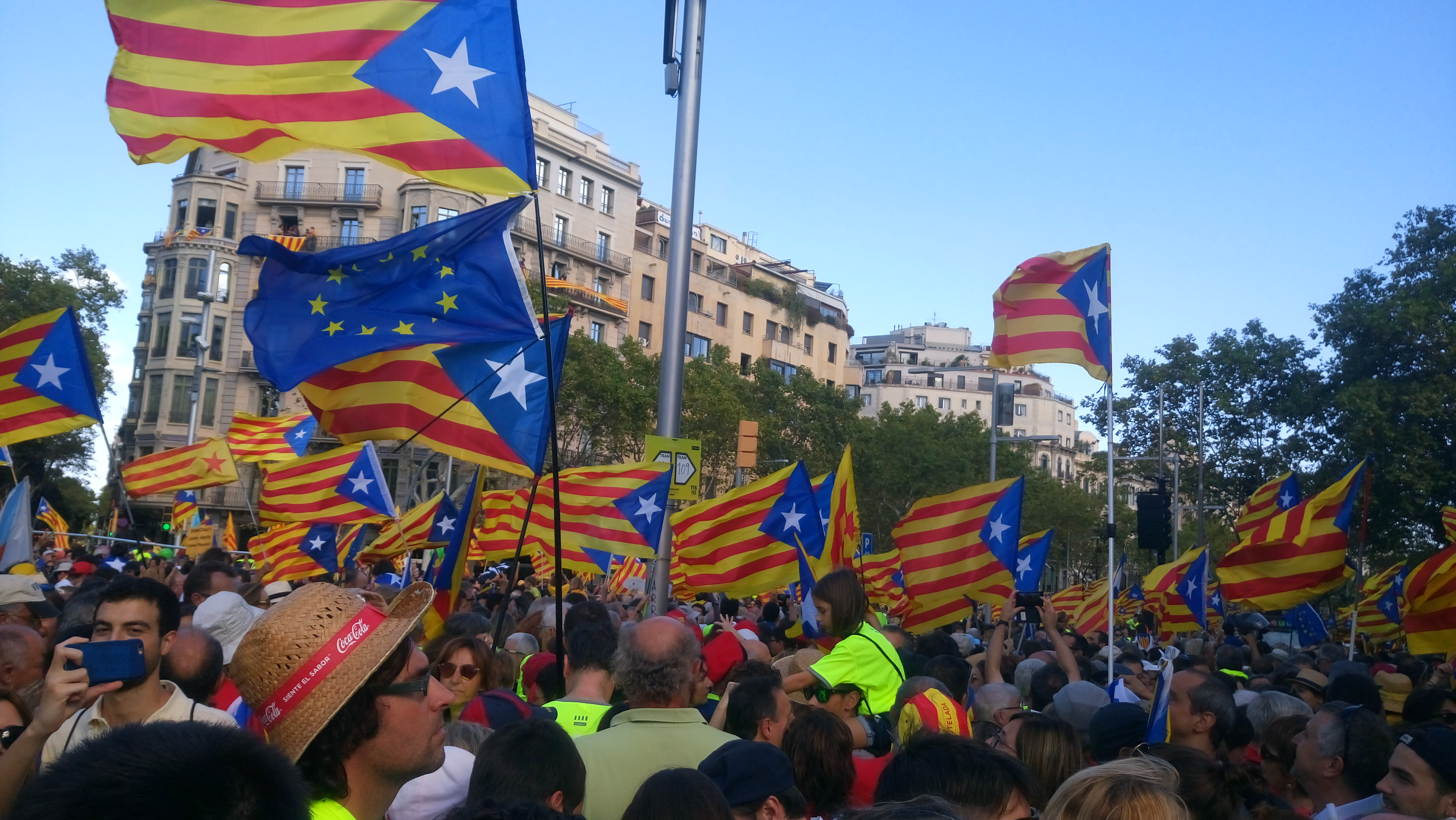 Barcelona. 9/11/2017 Catalonia National Day demonstration. Passeig de Gràcia.